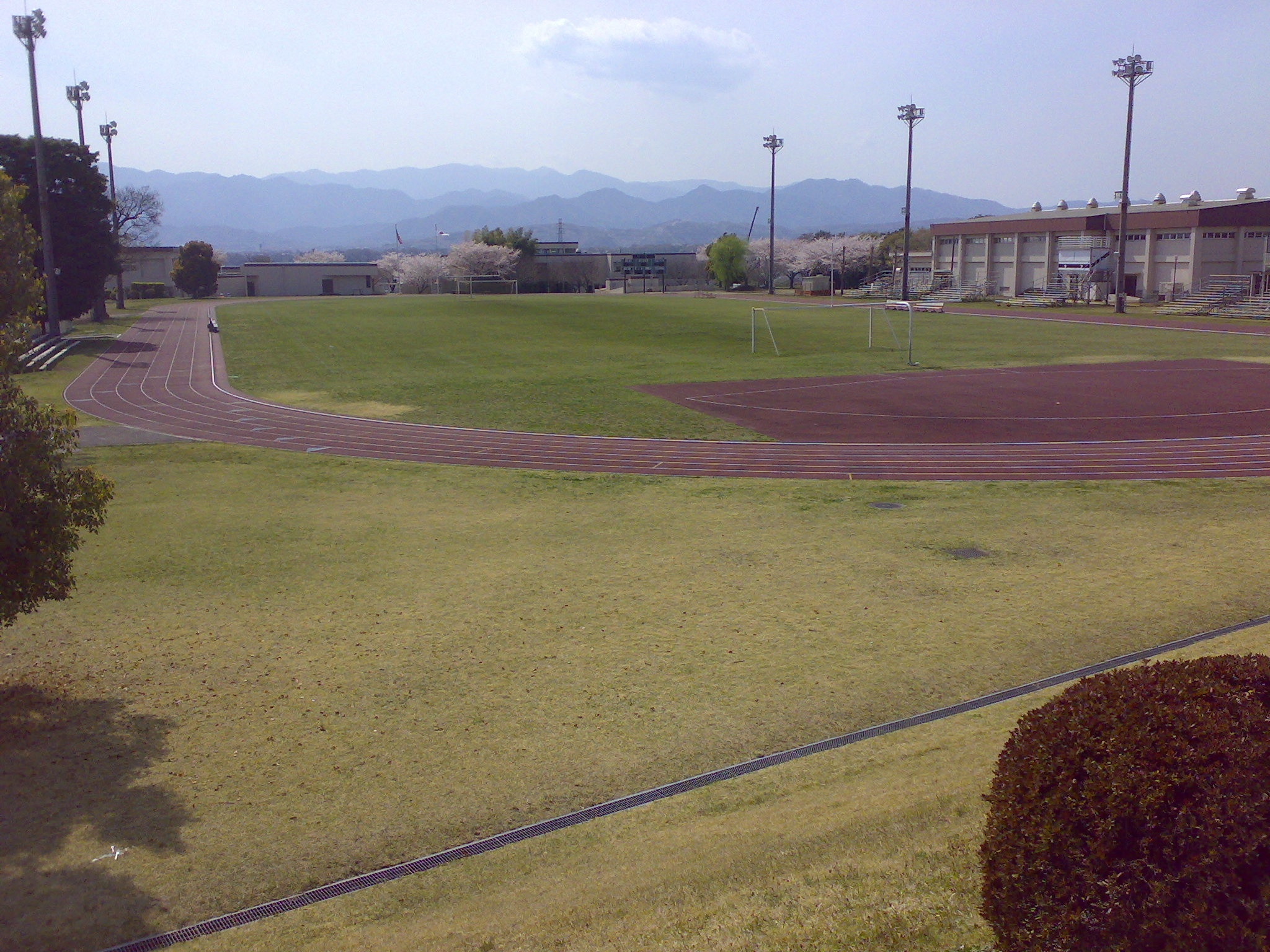 Track and football field. Zama, Kanagawa, Japan. (Zama American High School)